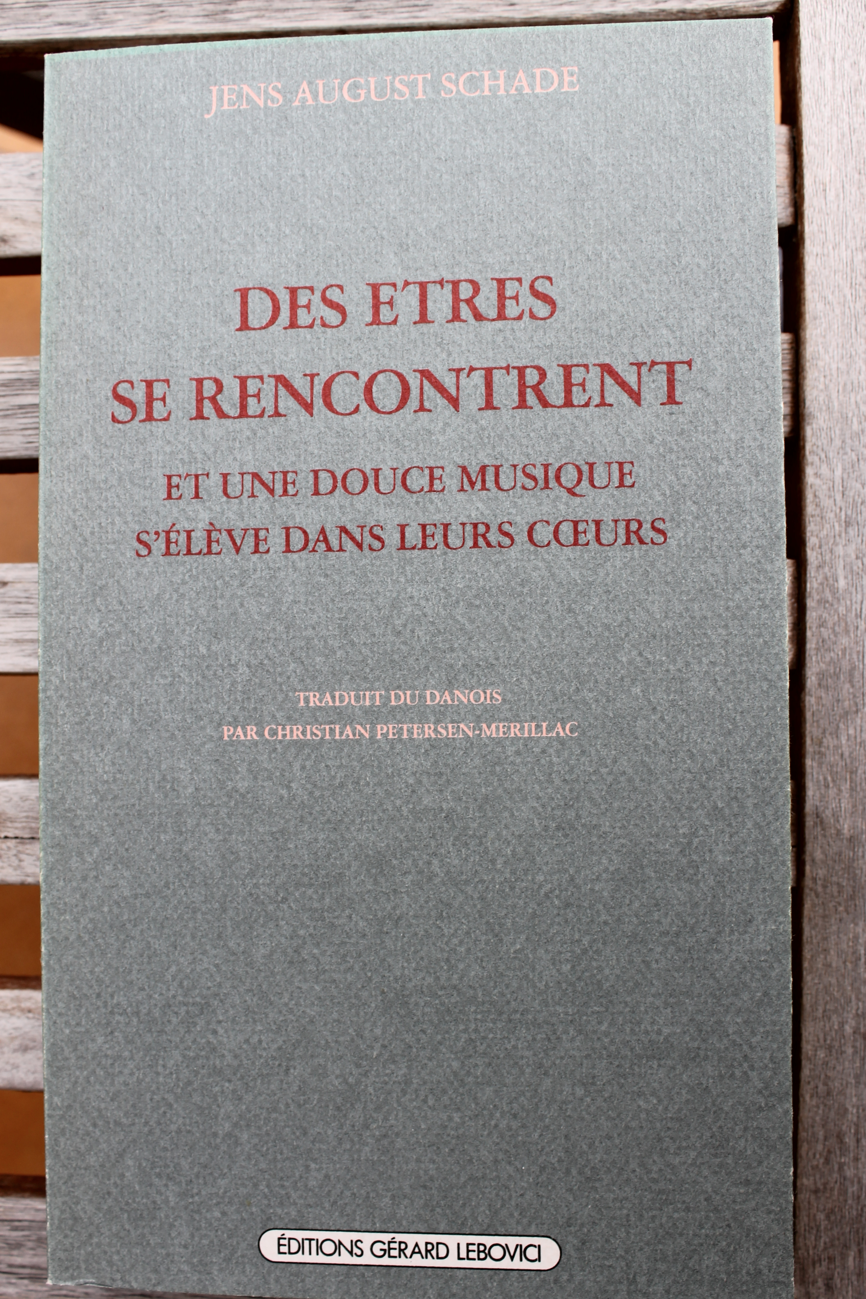 Jens August Schade, Des Êtres se rencontrent et une douce musique s'élève de leurs coeurs